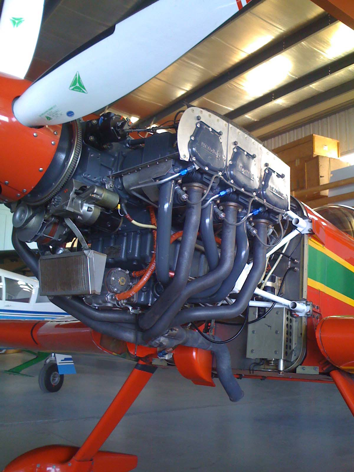 AEIO 540 in a CAP 231 aerobatic single seater